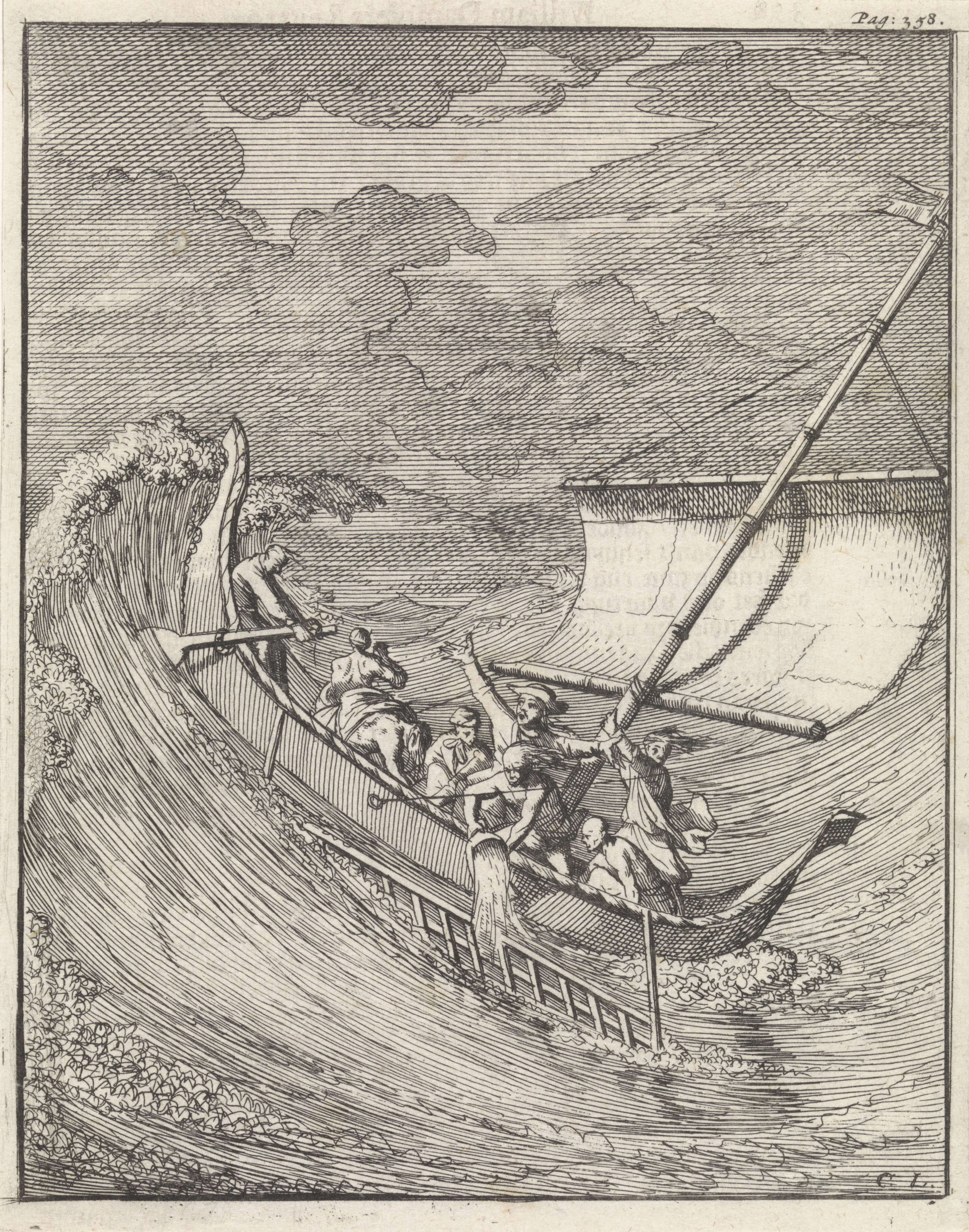 Print by Caspar Luyken, scanned from an 1815 reproduction